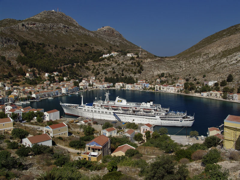 c/s Salamis Glory in Kastelorizo Harbour, Greece